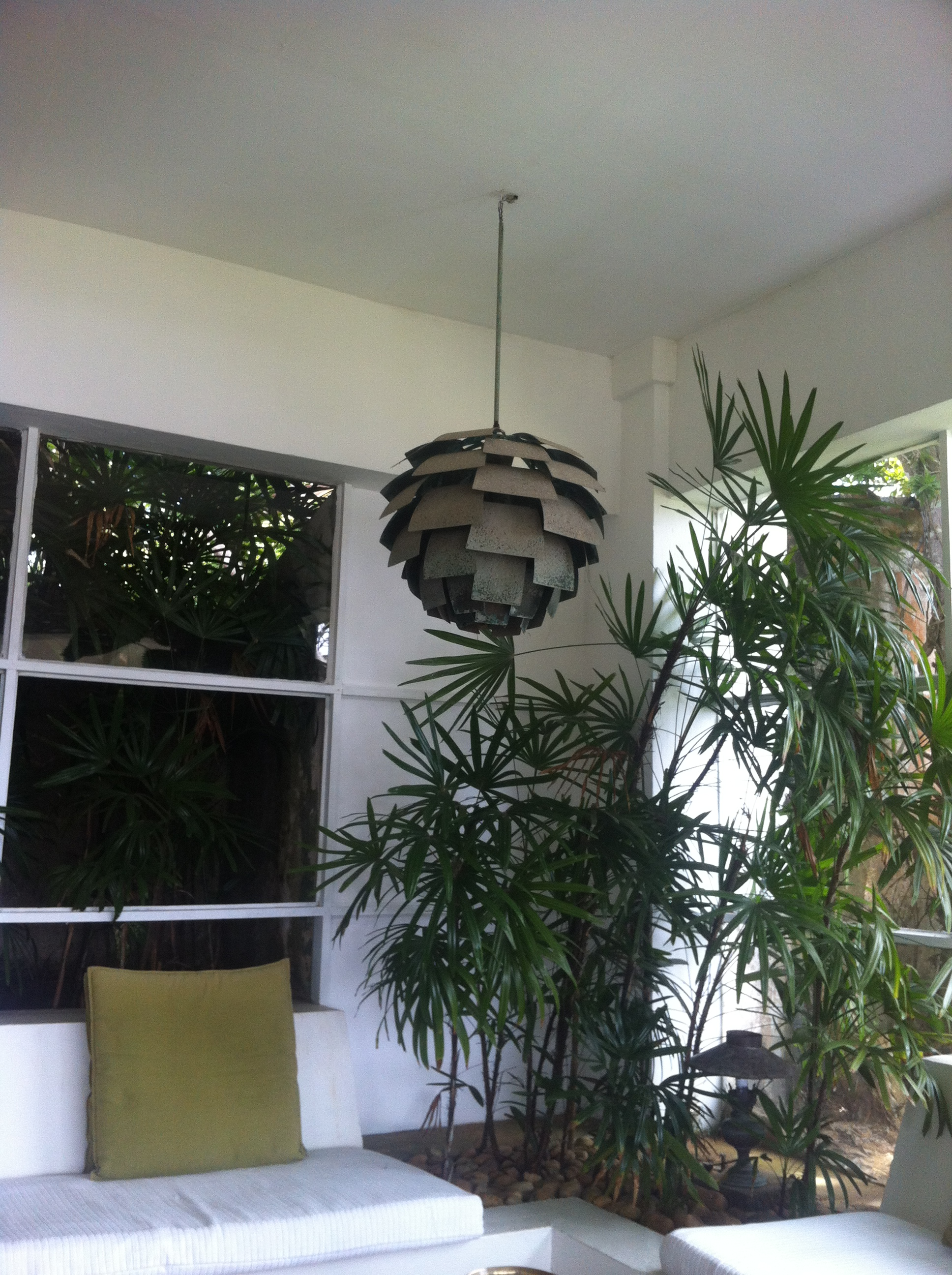 From the Sri Lankan architect Geoffrey Bawa's house Lunuganga in Bentota, Sri Lanka